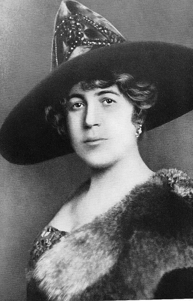 Sándor Erzsi (1883-1962) Hungarian soprano. Picture from 1917.